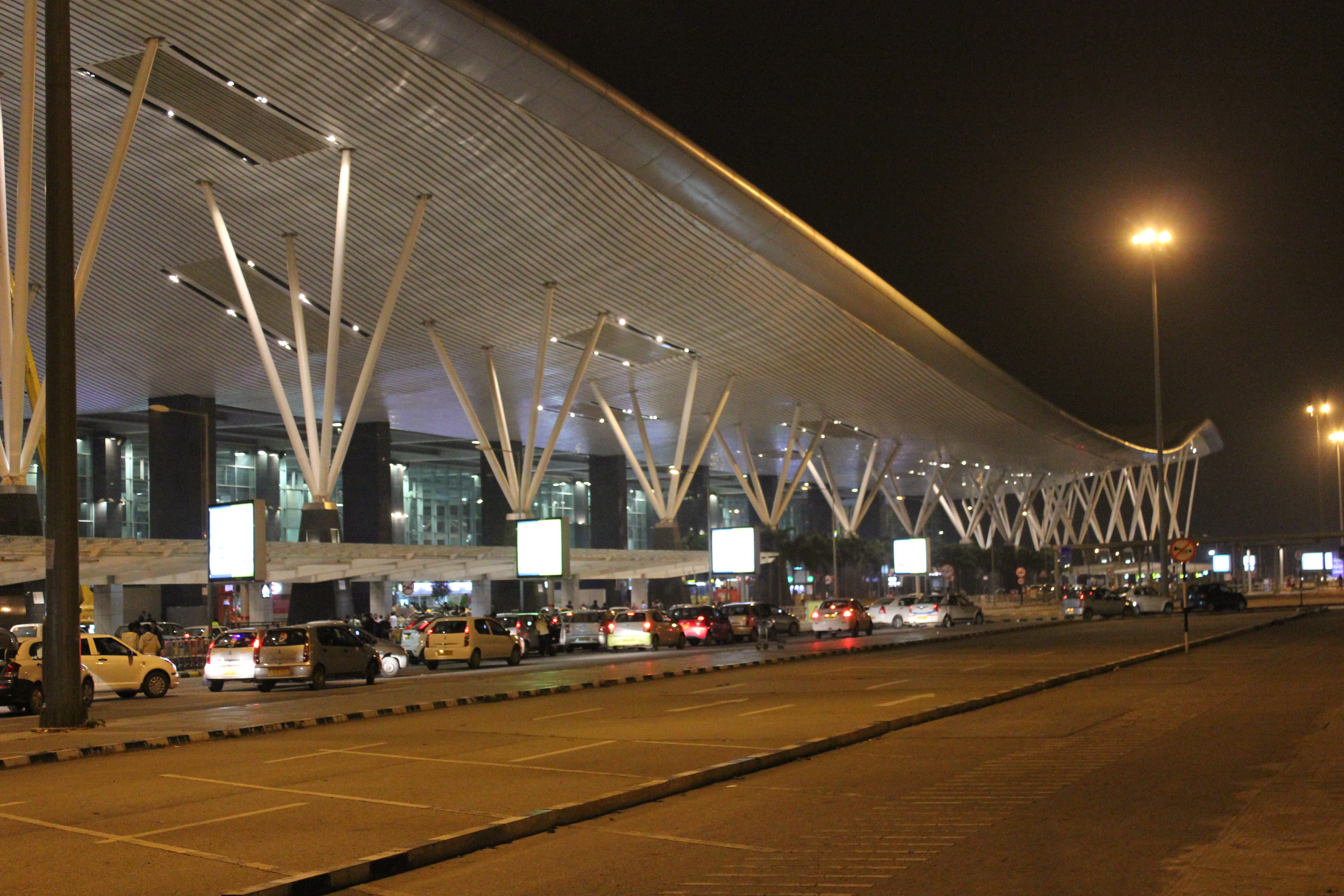 Night view of Kempegowda Int'l Airport, Bangalore.